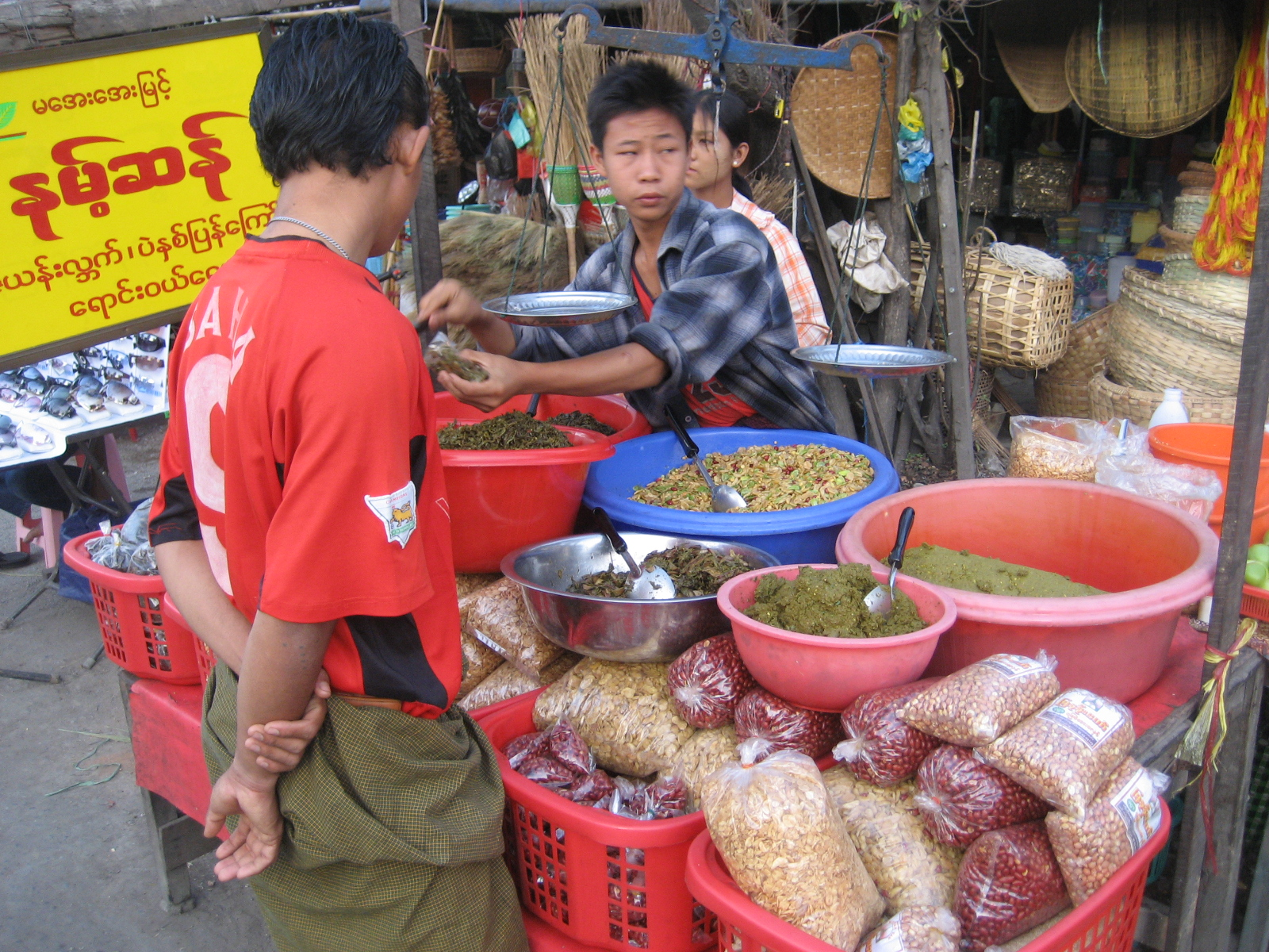 market stall in Mandalay selling lahpet - pickled green tea - from Namshan